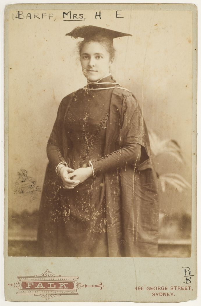 Photographed wearing her cap and gown; she graduated BA (Hons) 1886, MA (Hons) 1889 For a biography of Jane Foss Barff (nee Russell), see: Australian Dictionary of Biography online. .au/biography/barff-jane-foss-12784 Format: Photograph Find more detailed information about this photograph: .au/item/itemDetailPaged.aspx?itemID=874678 Search for more great images in the State Library's collections: .au/search/SimpleSearch.aspx From the collection of the State Library of New South Wales